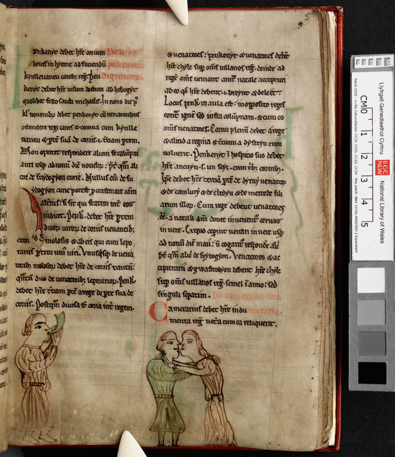 Kissing Couple. A Latin copy of the Laws of Hywel Dda, belongs to one of the National Library of Wales's foundation collections of manuscripts, the Peniarth Manuscripts.